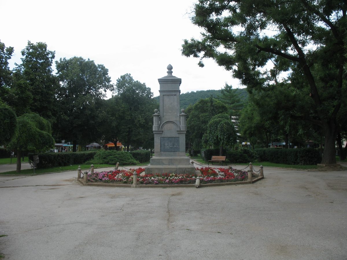 Kuršumlija, Serbia, monument in city center.